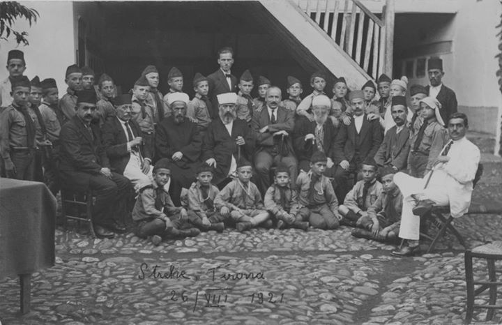 "Streha Vorfnore"- first Albanian orphanage in Tirana. Photo of August 1921.